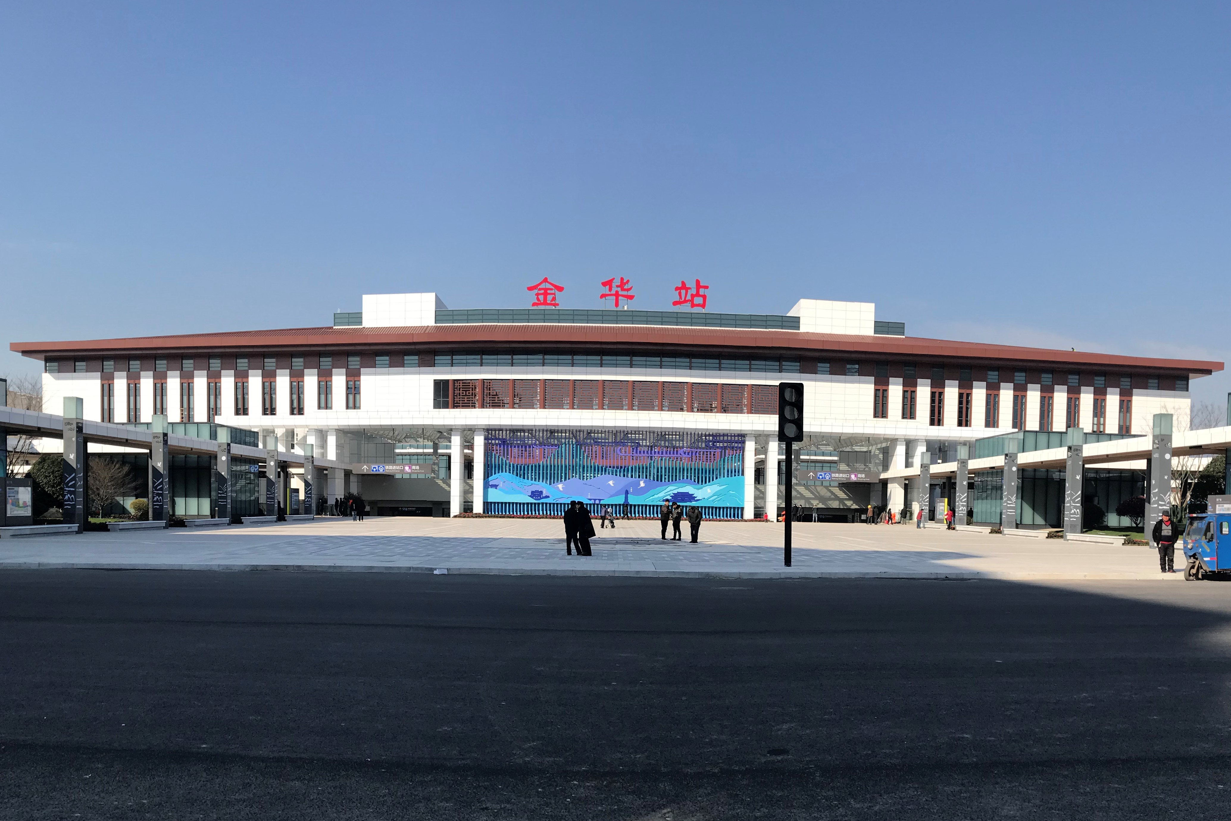 201812 Jinhua Station South Building Frontview